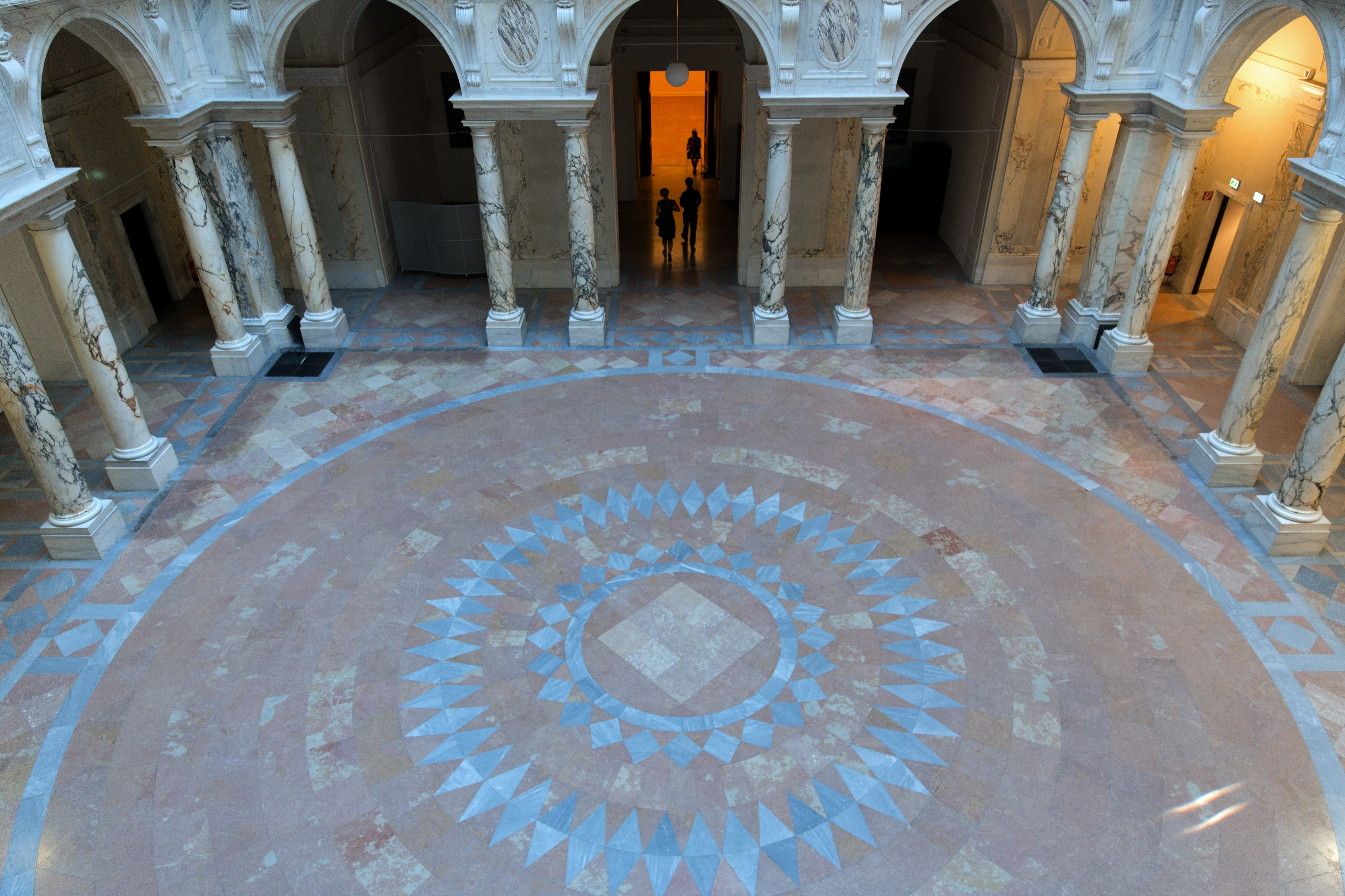 Inside Corps de Logis (Museum of Ethnology) of Hofburg Palace in Vienna, Austria.